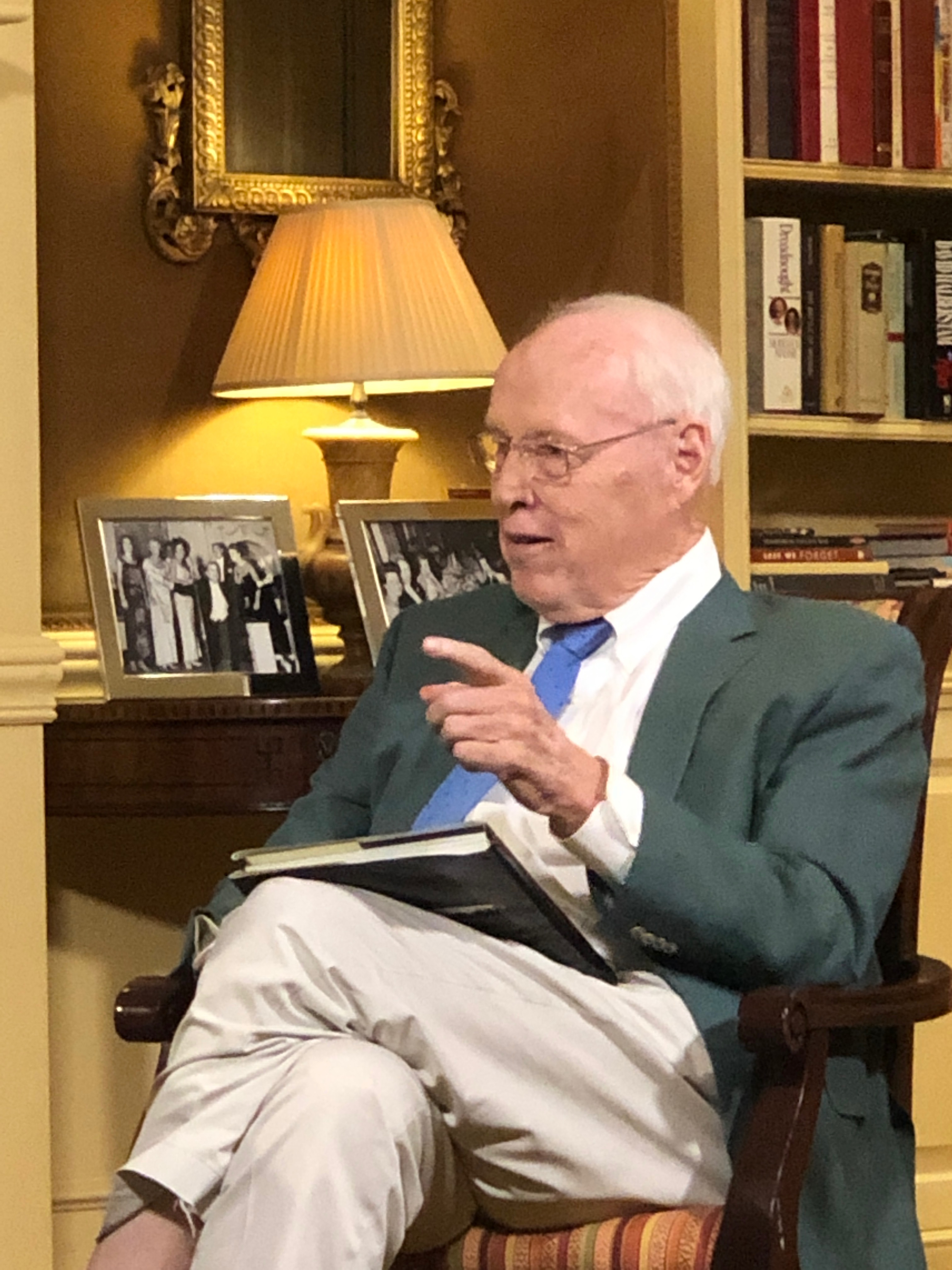 Author/historian W. Ridley Wills II at Belle Meade Country Club, Nashville, Tennessee